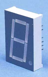 A typical 7-segment LED display component, with decimal point.